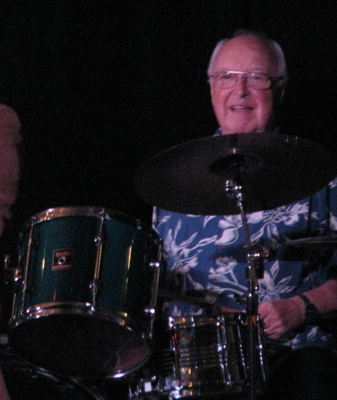 Jake Hanna performing at the West Texas Jazz Classic in Midland, Texas